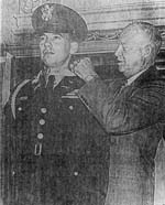 James L. Stone, United States Army, Korean War Medal of Honor recipient.